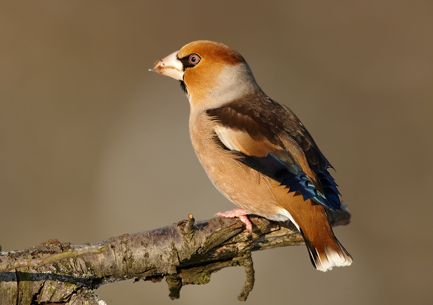 Coccothraustes coccothraustes